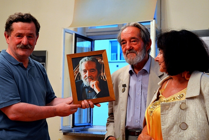 80th birthday of Władysław Szulc